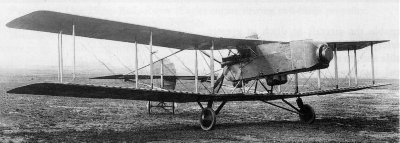 The first prototype Royal Aircraft Factory N.E.1 night fighter, in its original configuration with a searchlight mounting in the nose.